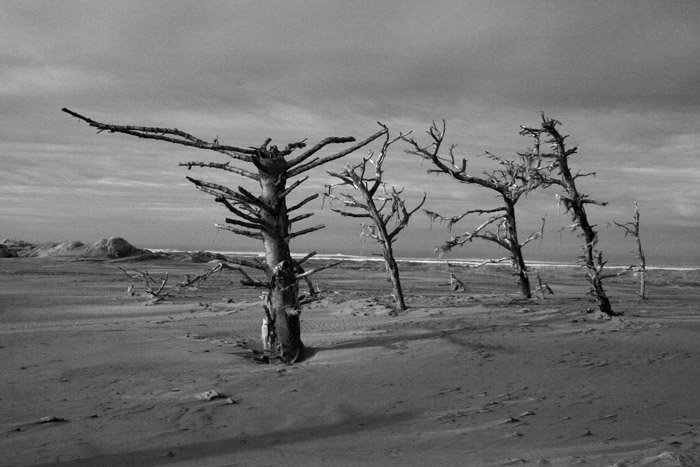 The skeleton forests of Lanphere Dunes exemplify the dynamic ecosystem that can be found here. Lanphere dunes are located in Humboldt County, California.